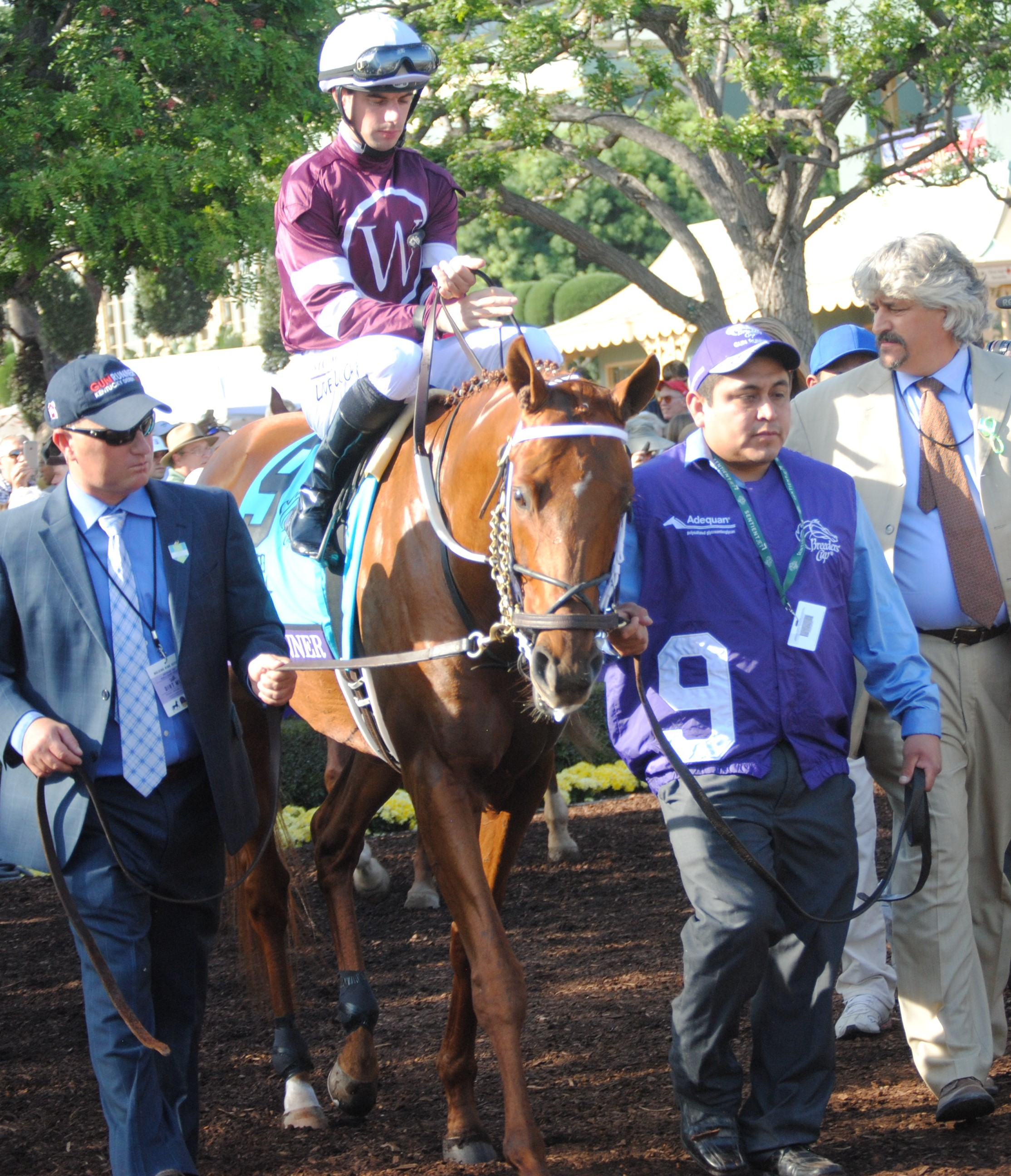 Gun Runner in the walking ring for the 2016 Breeders' Cup Dirt Mile. Trainer Steve Asmussen to the right. Jockey Florent Geroux